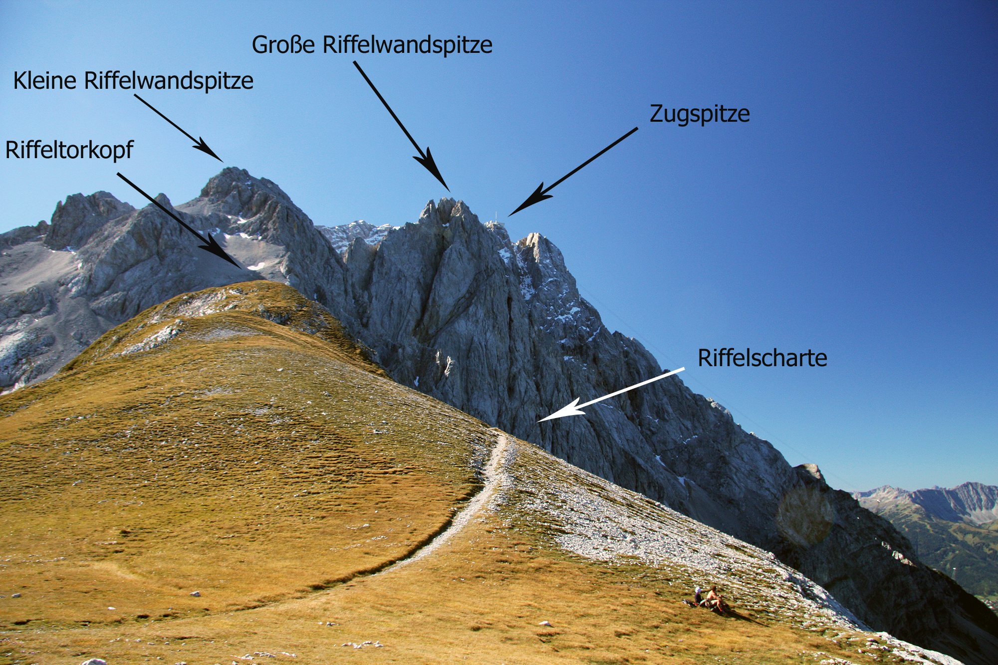 Riffeltorkopf